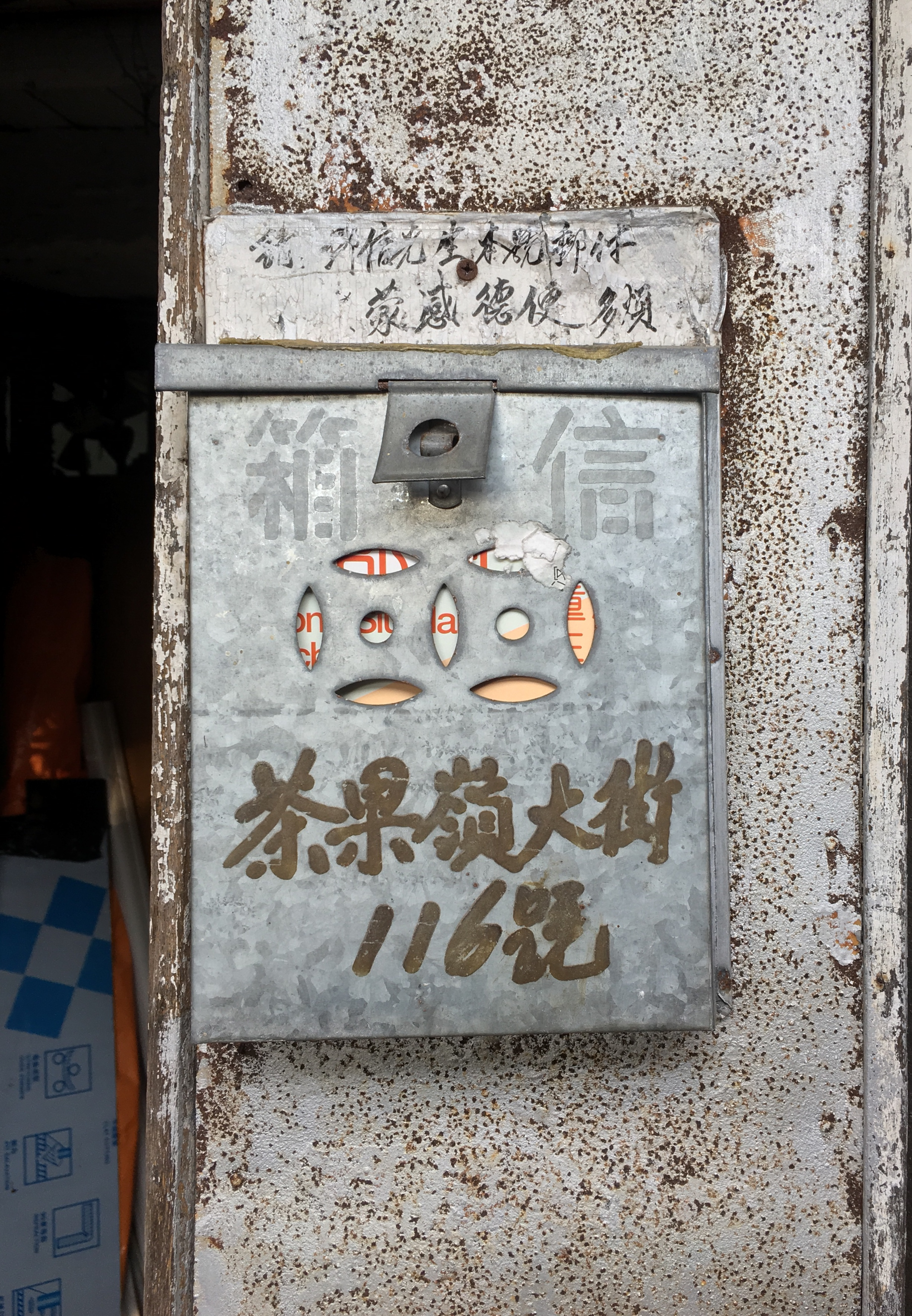 A tin letter box found near the Main Street of Cha Kwo Ling Village, Kwun Tong